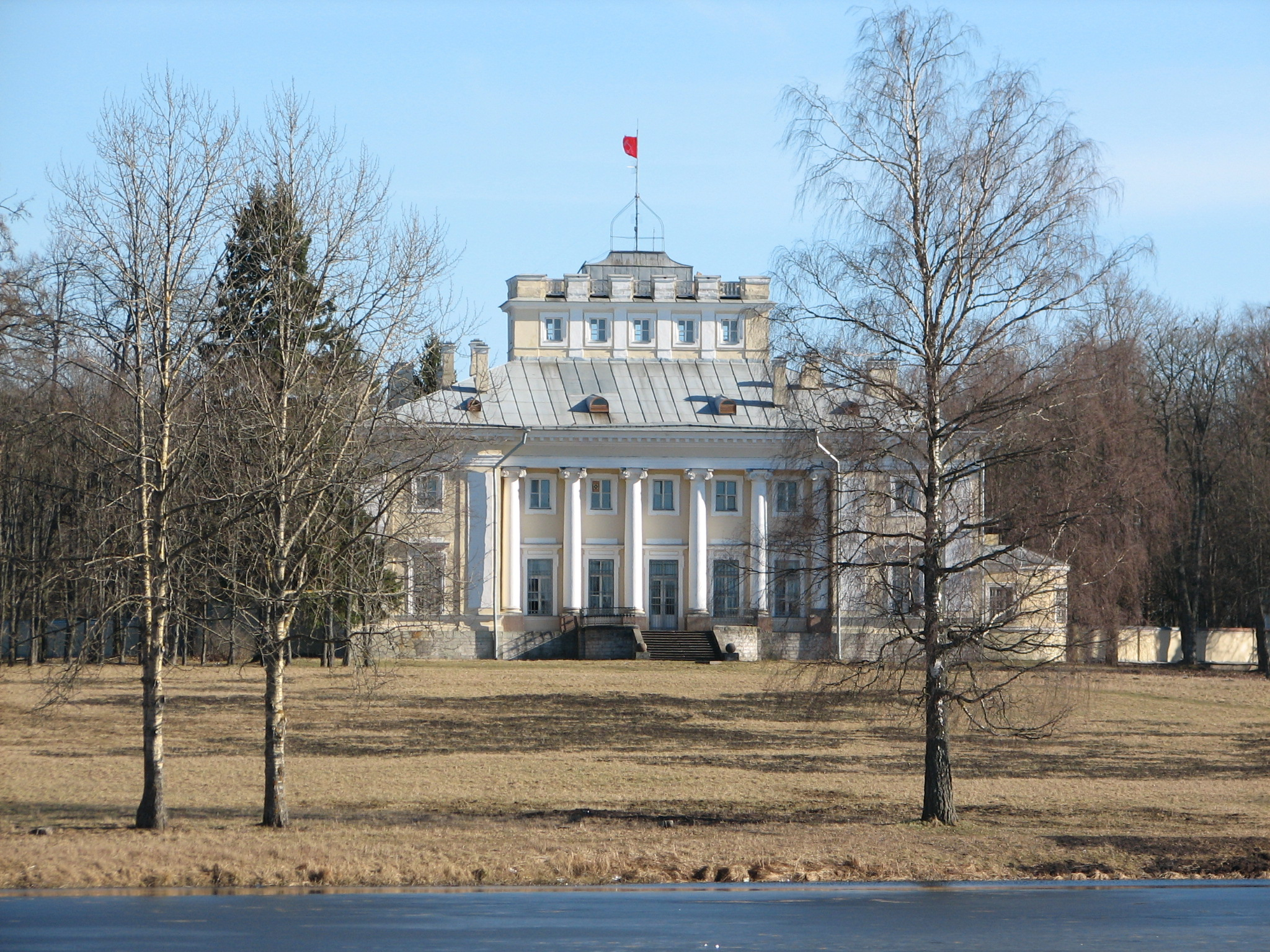 Demidov’s Estate of “Sivoritsy”.